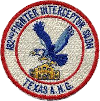 182d Fighter-Interceptor Squadron - Emblem